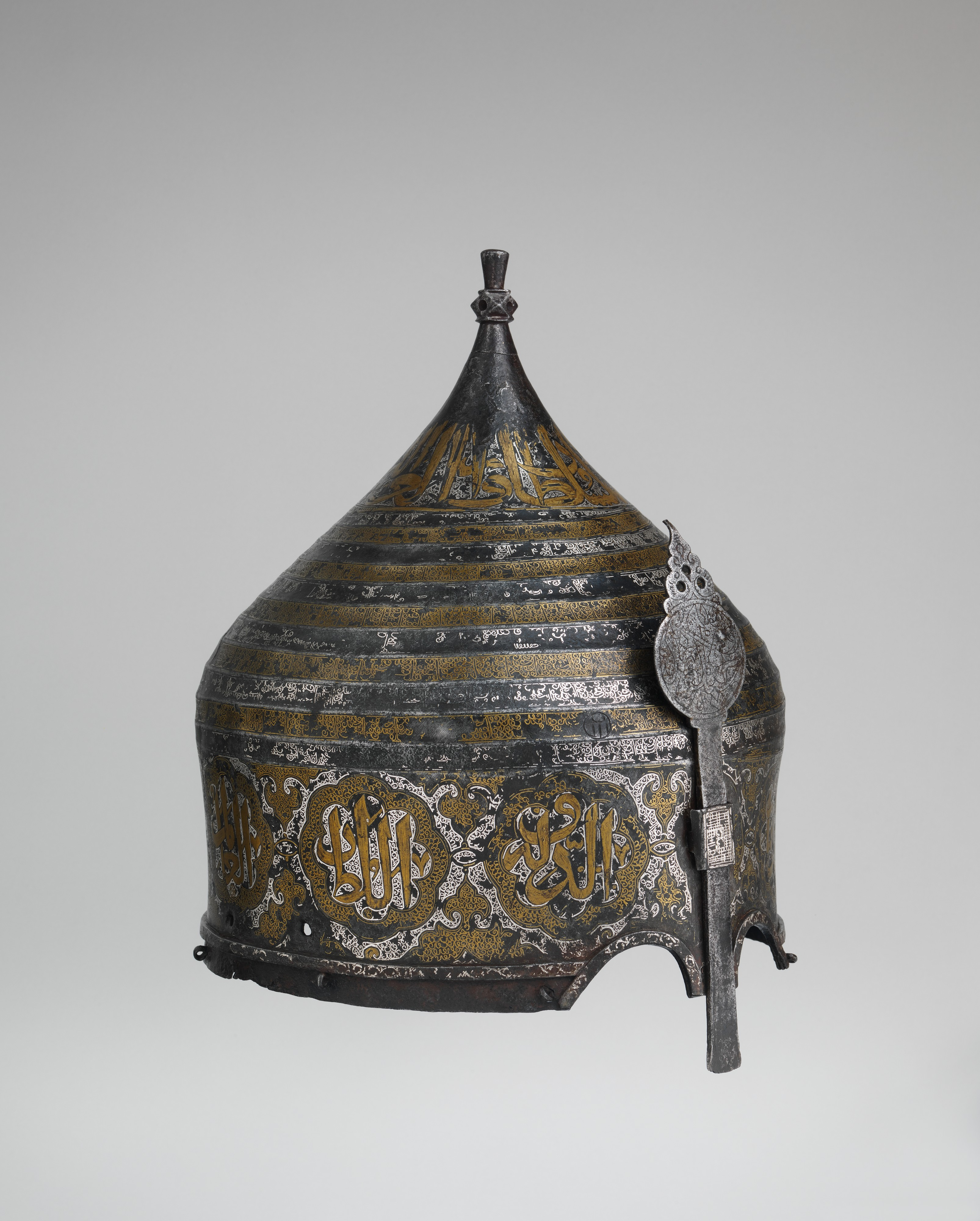 Western Iranian, in the style of Turkman armor; Turban helmet; Helmets